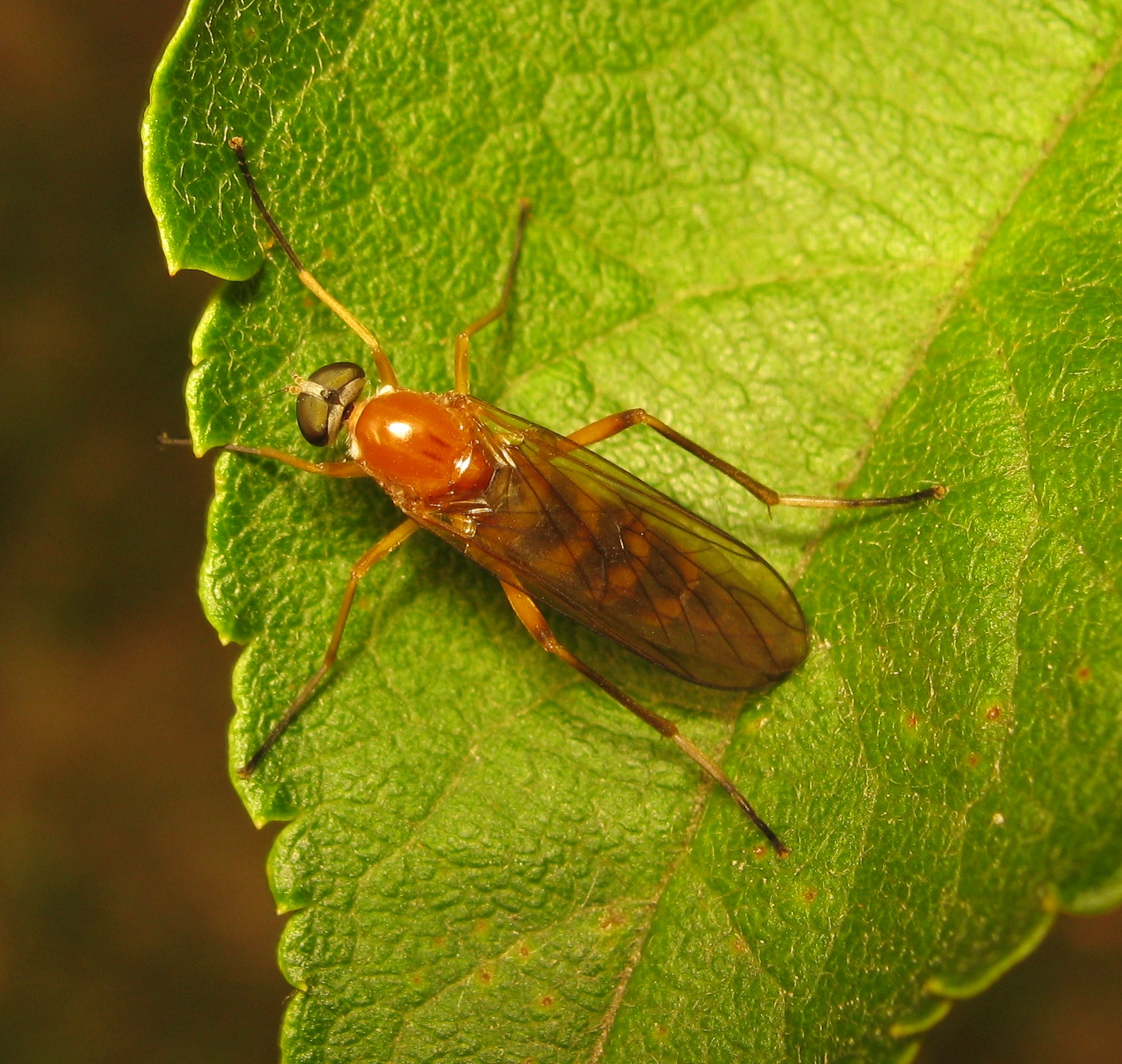 Xylophagidae fly, Dialysis elongata. Willow Grove, Montgomery County, Pennsylvania, USA.